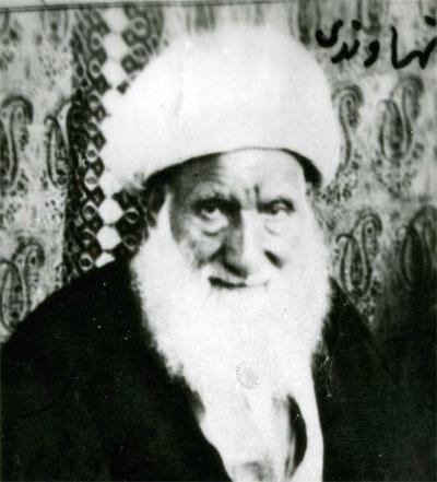 A photo of Sheikh Ali Akbar Nahavandi, a well-known Iranian Shi'a cleric, author, and Islamic preacher.